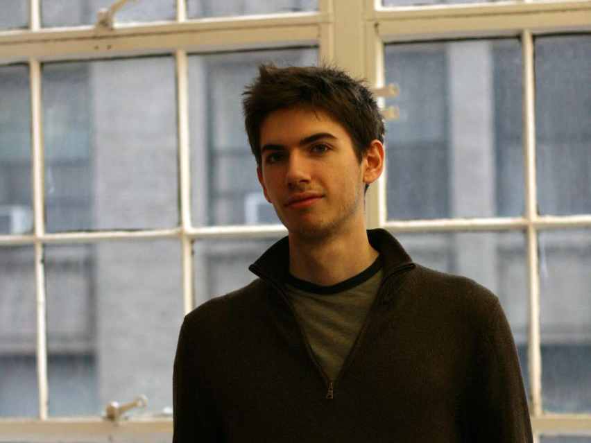 David Karp, co-founder of Tumblr